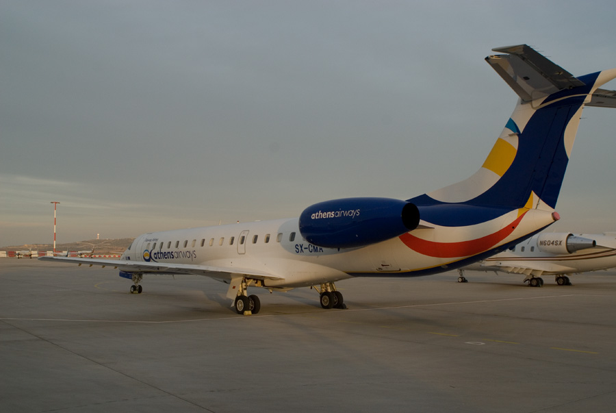 Embraer 145 of Athens airways.